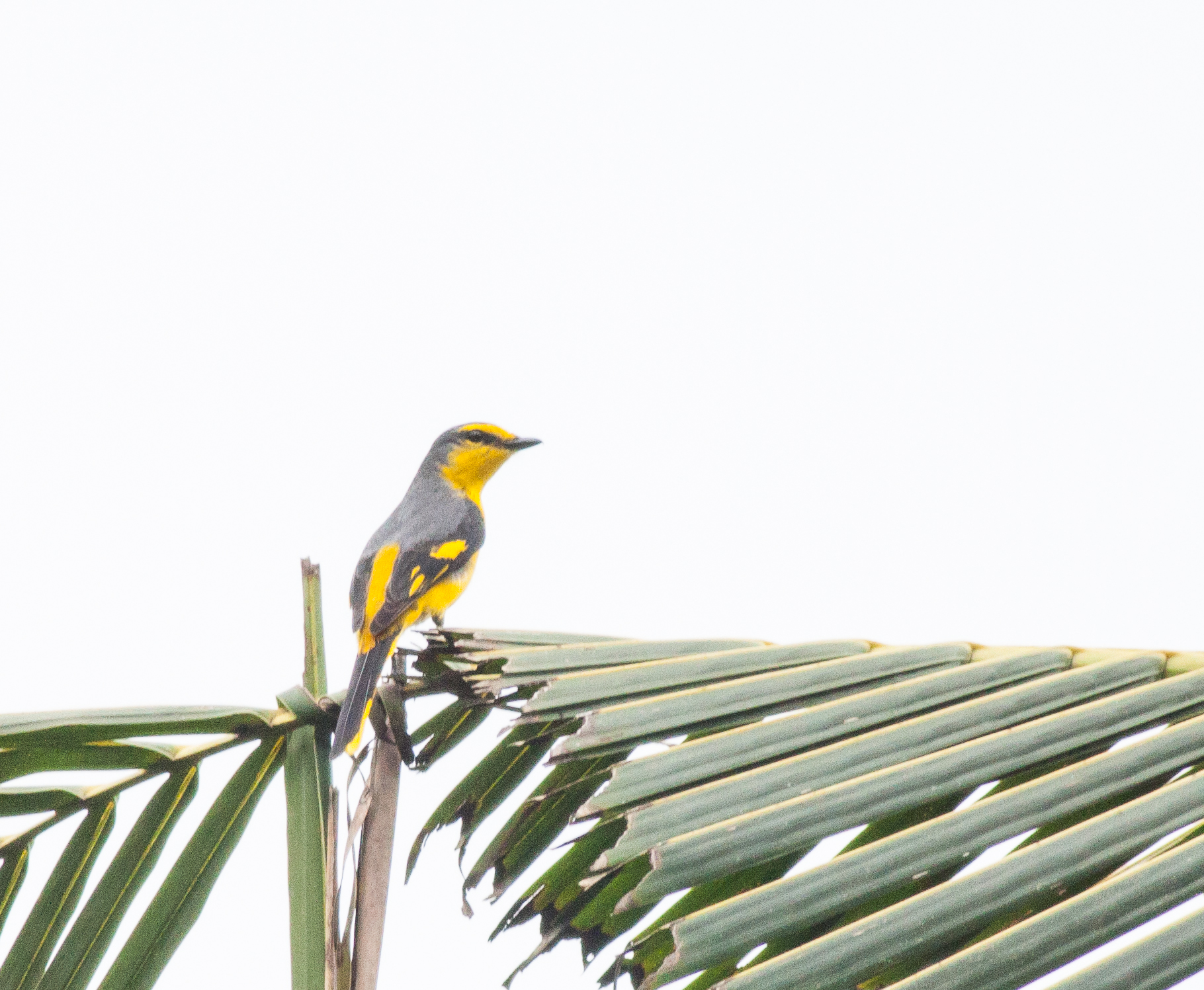 Orange Minivet Pericrocotus flammeus, Hosamata, Puttur, Karnataka, India